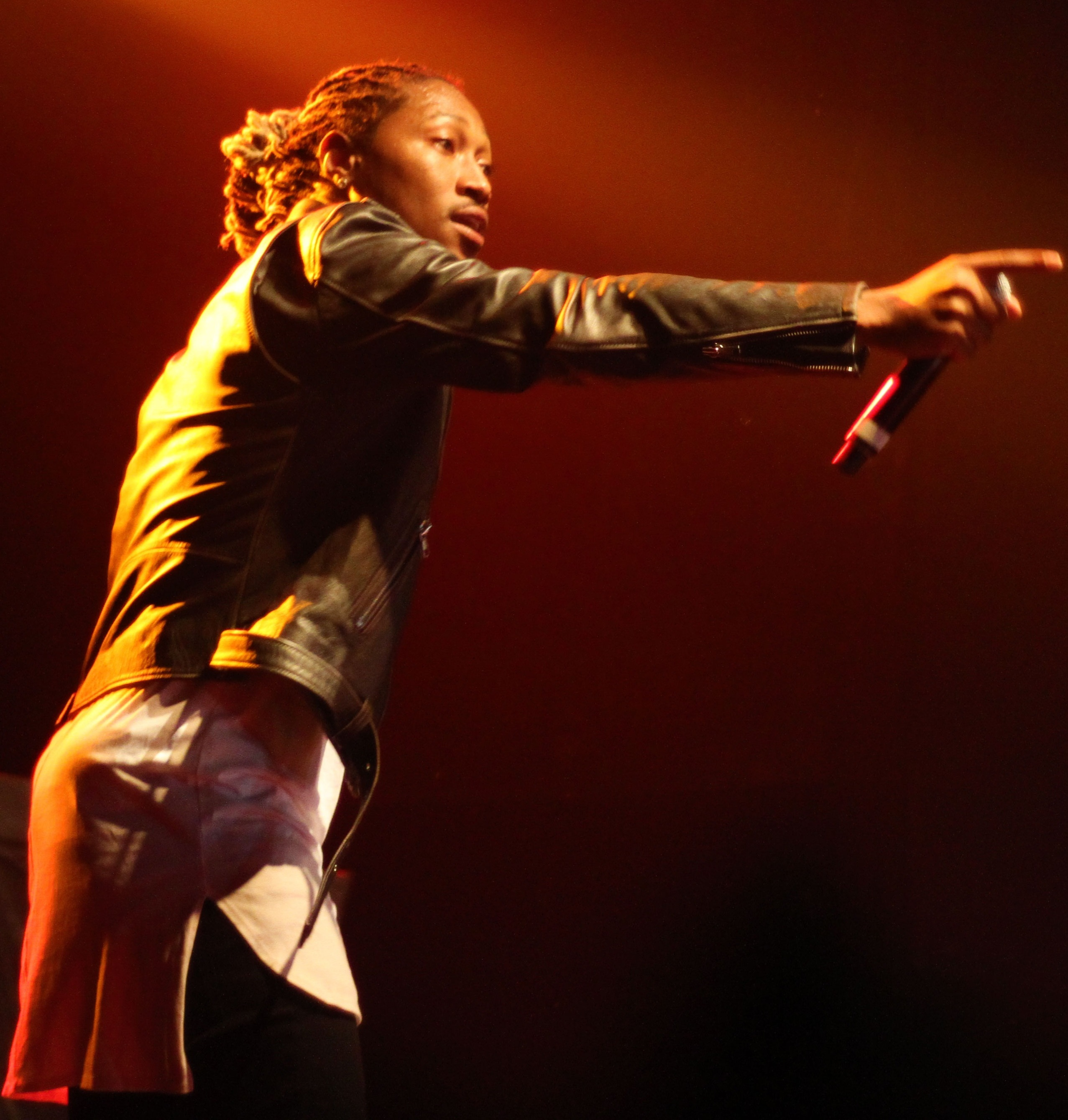 Rapper Future in 2013